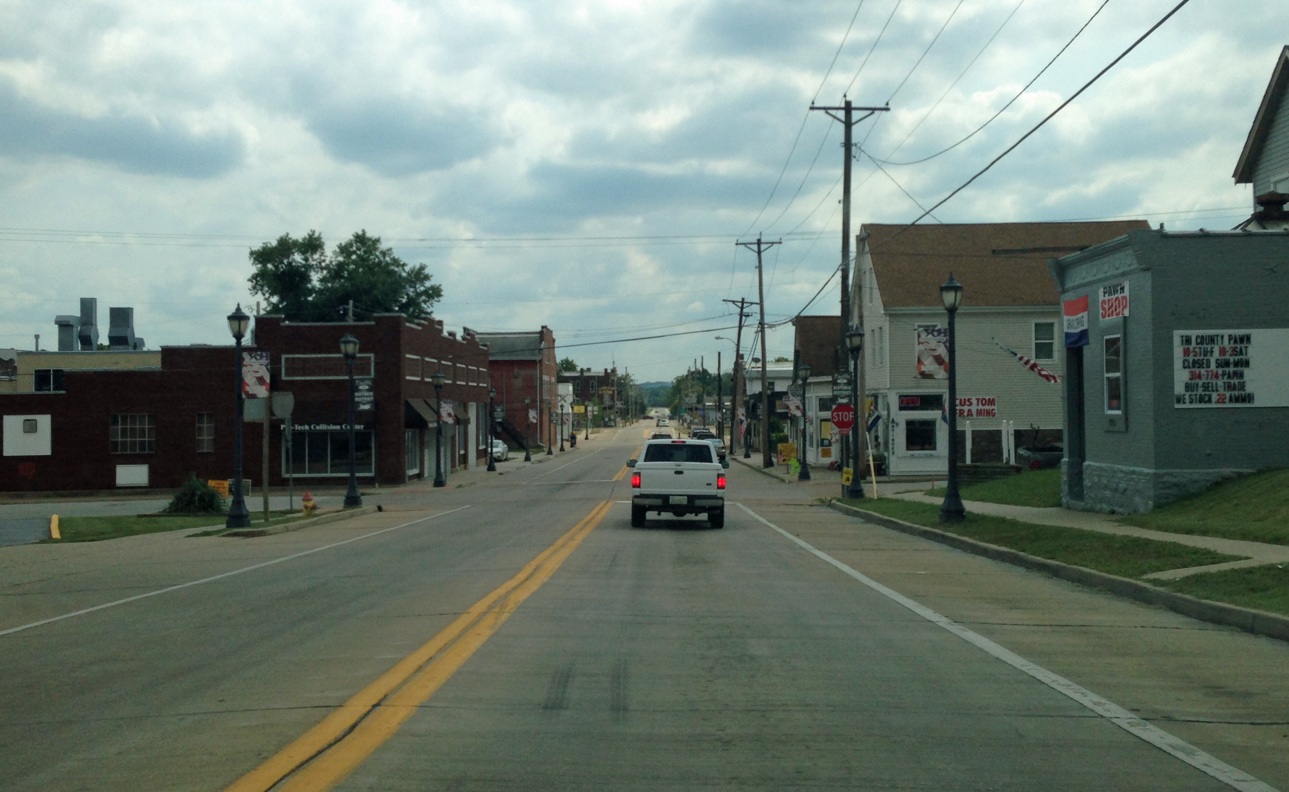 Looking south along 1st Street in Pacific, Missouri.